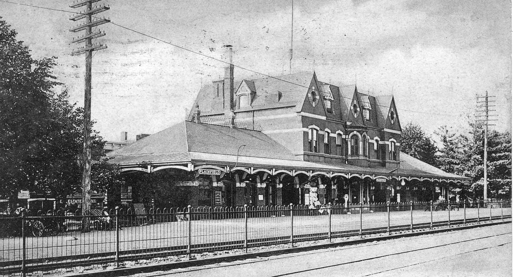 Central Railroad Station, Plainfield, New Jersey (1906).